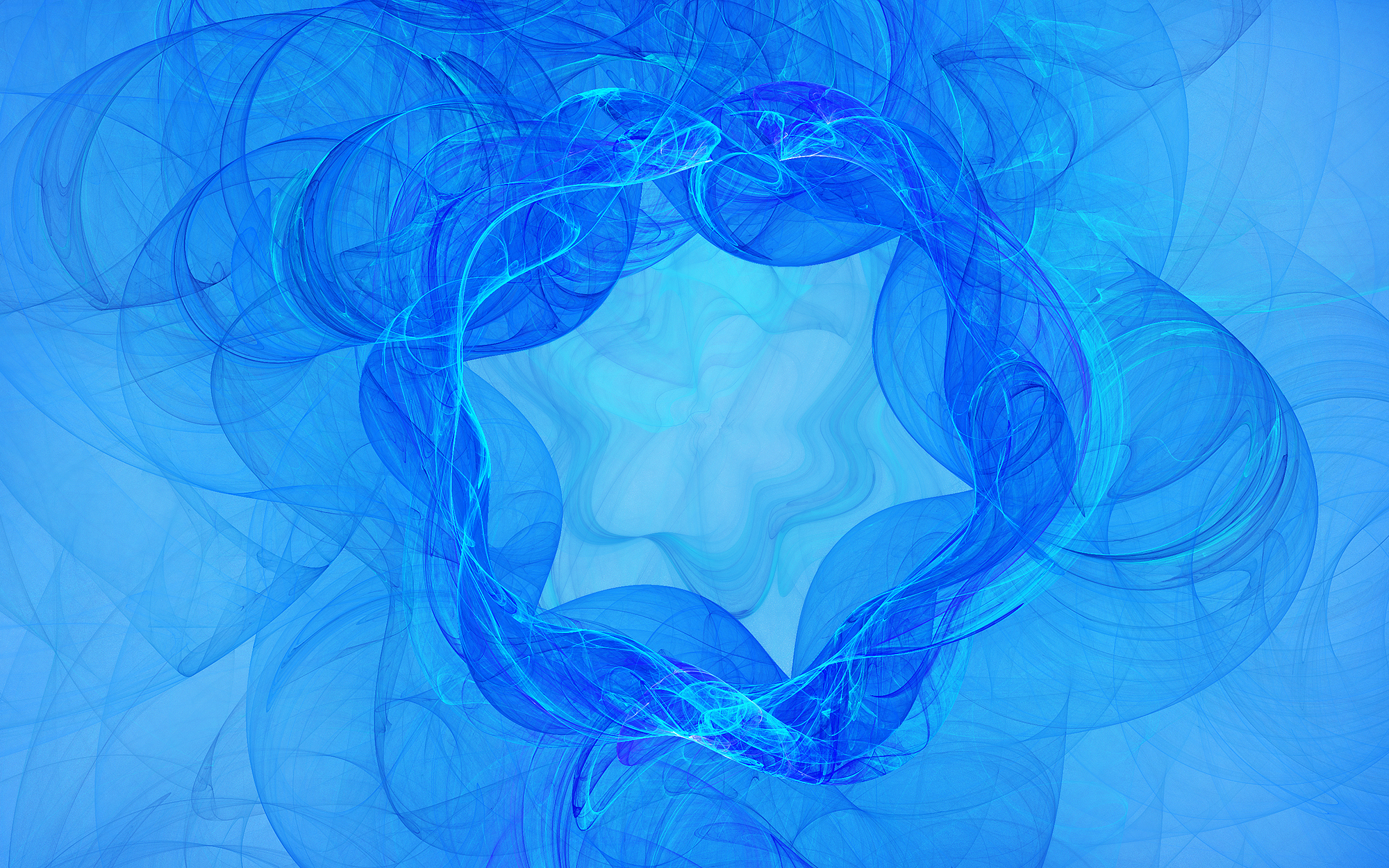 Render of a swirly abstract background.